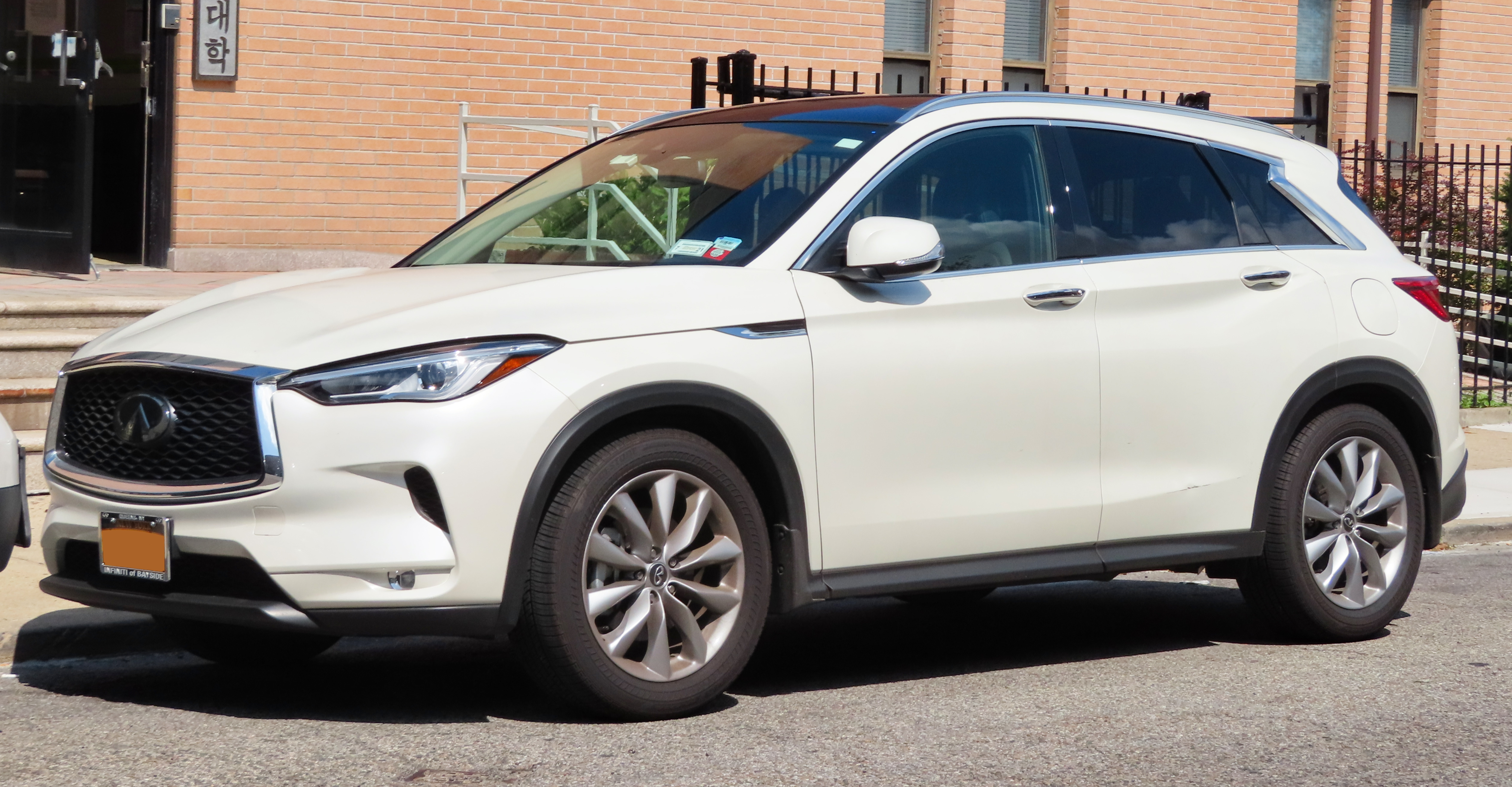 A 2019 Infiniti QX50 AWD photographed in Jackson Heights, Queens, New York, USA